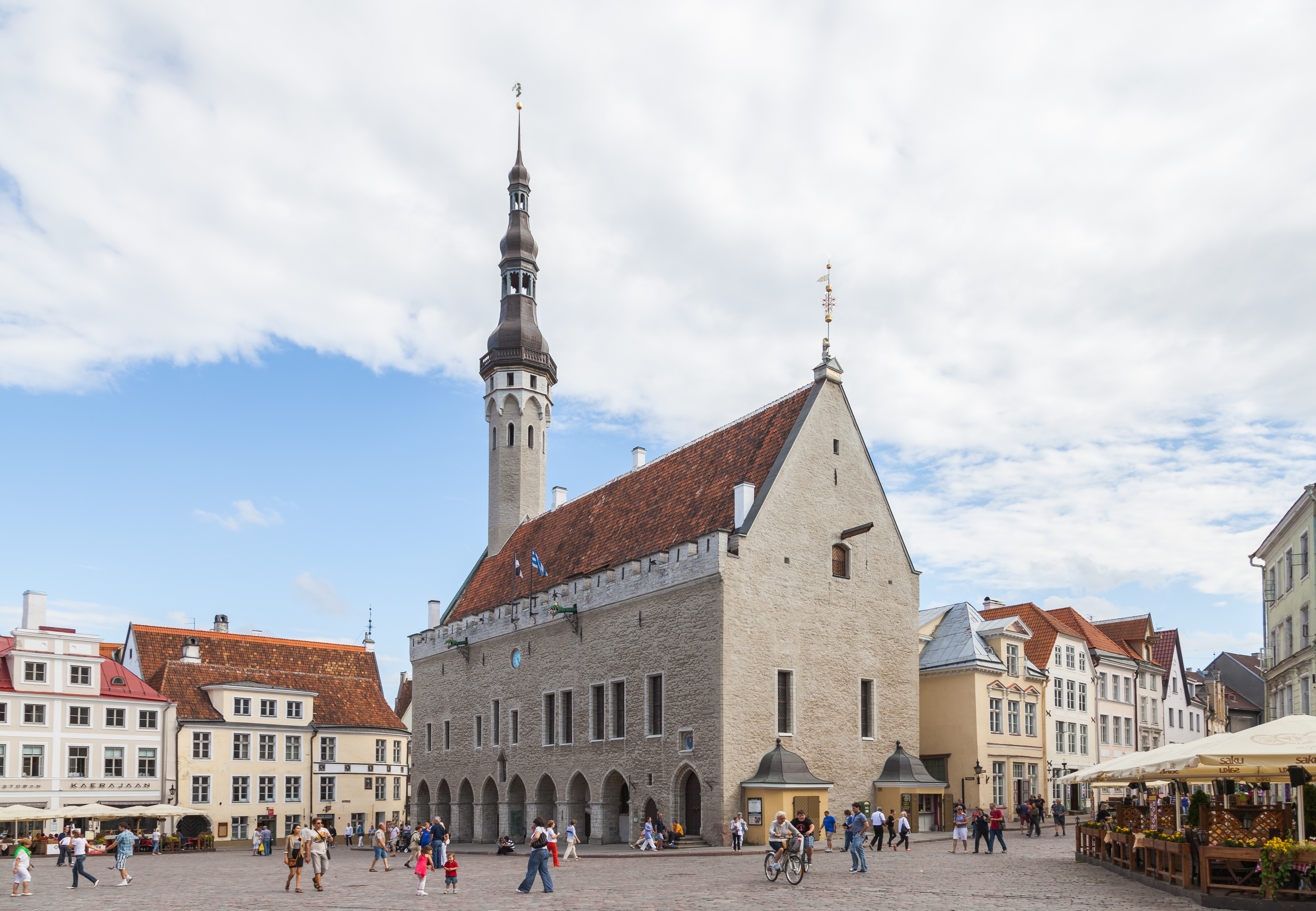 Town Hall Square, Tallinn, Estonia